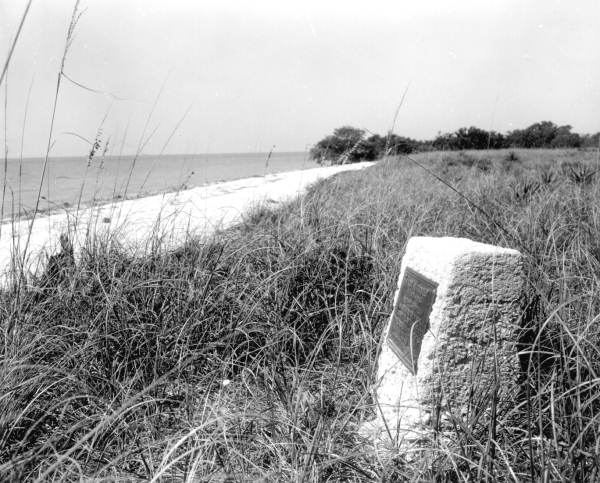 Monument on a shell ridge at Cape Sable, overlooking Florida Bay. Erected by the Florida Audubon Society to commemorate game warden Guy Bradley, who was killed by poachers, it reads: "Guy M. Bradley, 1870–1905, Faithful Unto Death, As Game Warden of Monroe County He Gave his Life for the Cause to Which He Was Pledged". Bradley's grave and monument were washed away in 1960 by Hurricane Donna.